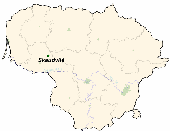 Skaudvilė on the map of Lithuania